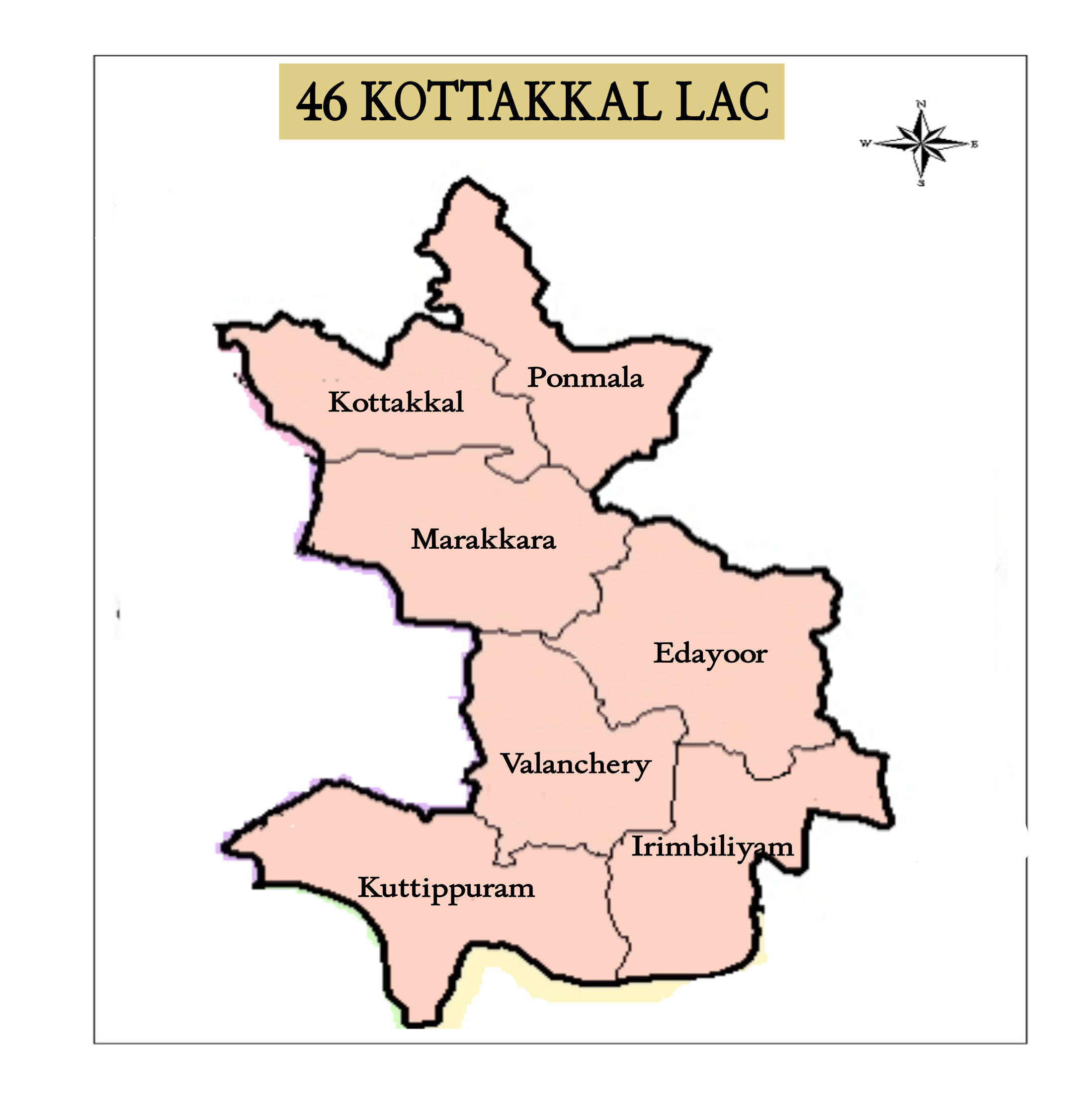 This is the map of the Kottakkal Niyamasabha constituency